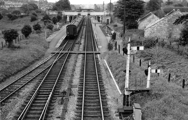 Bathampton Station. View eastward from Mill Lane Bridge, towards Swindon and London, also Trowbridge, Westbury etc. by a line that curves off sharply to the right at the far end of the station; closed 3/10/66. (The Batheaston - Swainswick by-pass now passes right beside the railway on the Up (left) side)